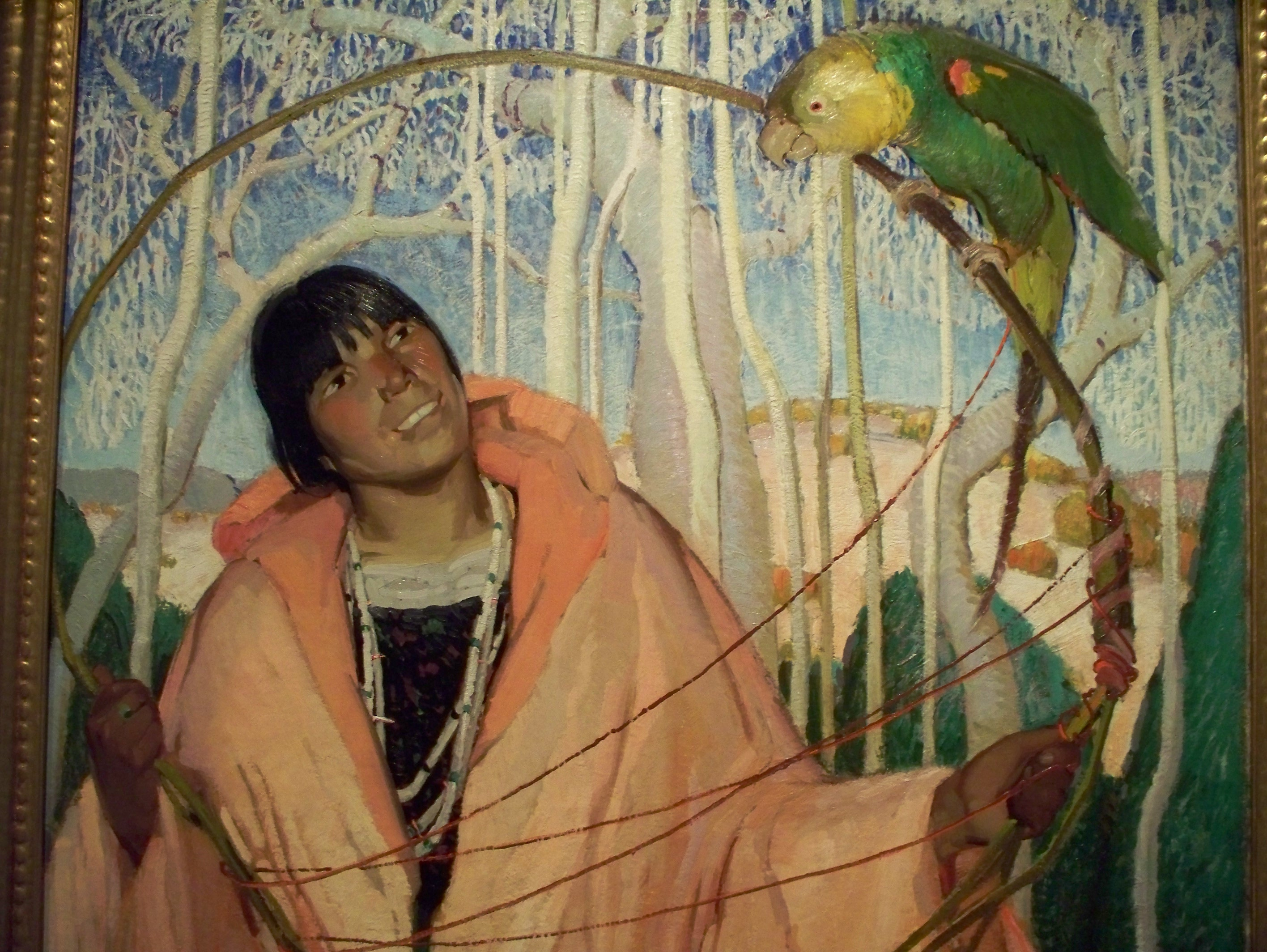 Indian Girl with Parrot and Hoop Artist Higgins, Victor nationality American birth-death 1884-1949 Creation date about 1920 Materials oil on canvas Dimensions 40 x 43 in. 47 x 50 x 3 1/2 in. (framed) Location Art of the American West Gallery Credit line Gift in memory of John P. Frenzel Sr. by his heirs Accession number 73.105.8 This canvas, with its intricate linear construction, exhibits the artist's dramatic use of brilliant color. Pueblo people used parrots as a source of feathers to decorate ceremonial objects. Indiana-born Higgins gained his fame as a Western artist painting in Taos, New Mexico. Wikipedia Loves Art at the Indianapolis Museum of Art This photo of item # 73.105.8 at the Indianapolis Museum of Art was contributed under the team name "Opal_Art_Seekers_4" as part of the Wikipedia Loves Art project in February 2009. Indianapolis Museum of Art The original photograph on Flickr was taken by Forever Wiser—please add a comment to the original Flickr page whenever a use has been made on Wikipedia or another project. Project galleries on Flickr: this institution, this team